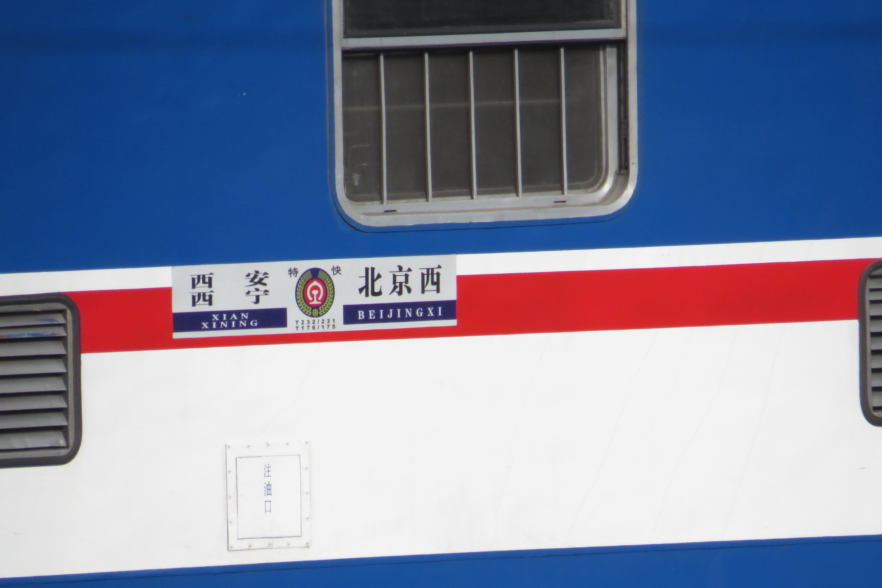 T175, Beijing to Xining. (From a KD25K power generation car)